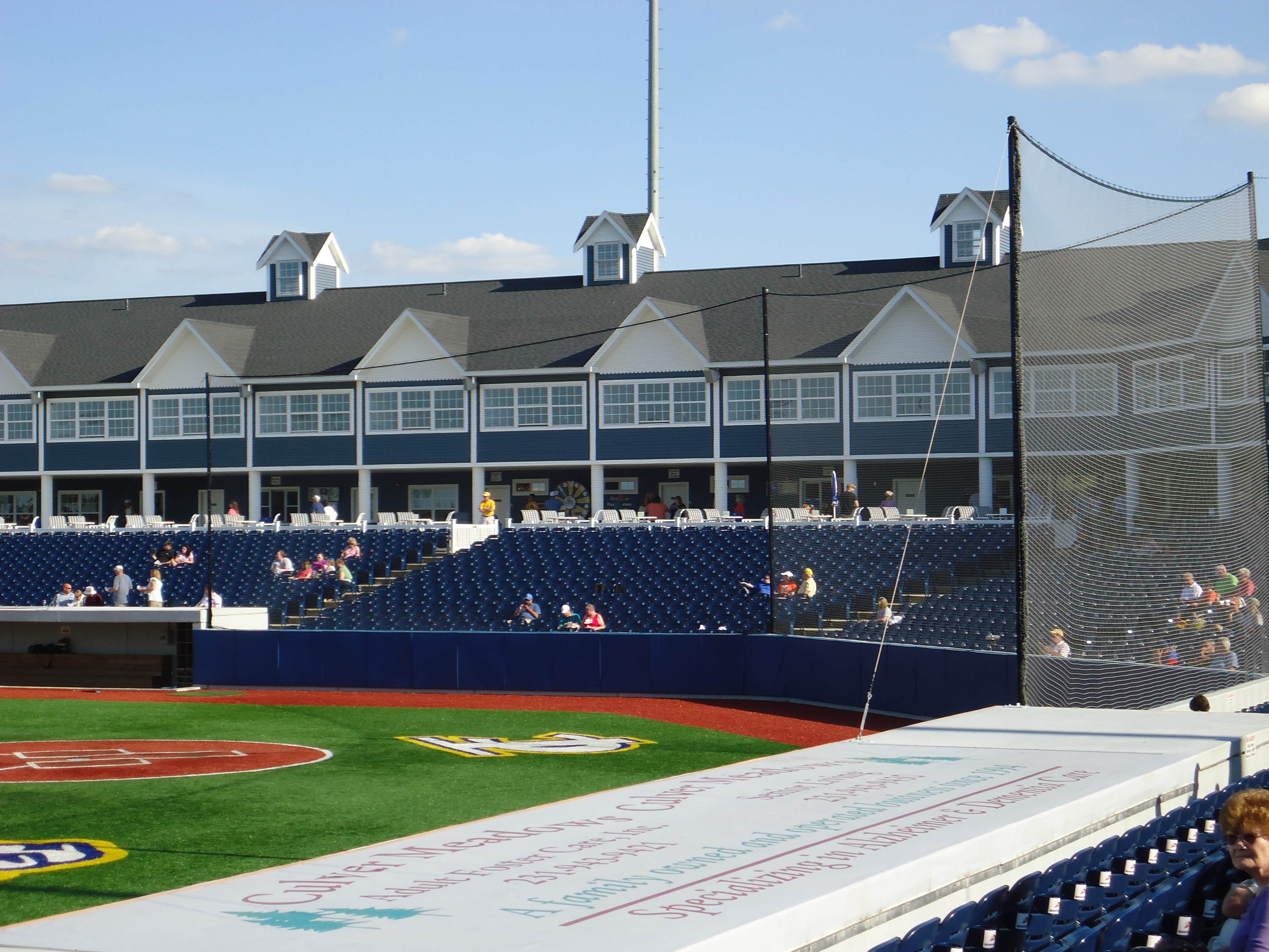 This is Wuerfel Park located in Blair Township, Michigan and it's home to the Traverse City Beach Bums minor league baseball team. They are an independent "pro" team in the Frontier League. What makes Wuerfel Park unique is the "beach condos" design all around the ballpark.